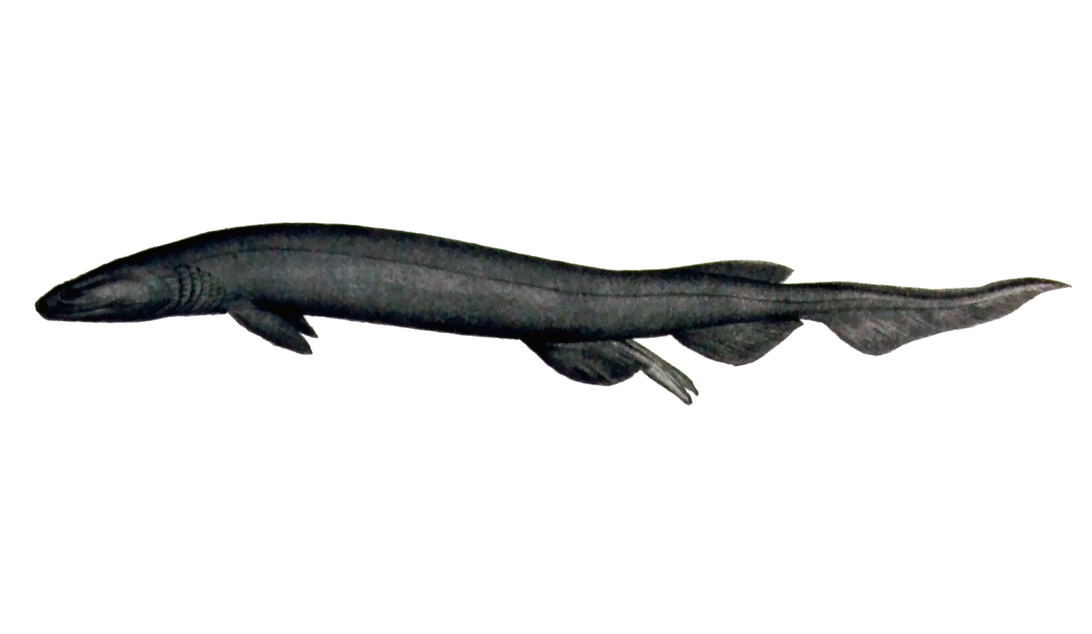 Drawing of a male frilled shark (Chlamydoselachus anguineus). Original caption: "Chlamydoselache anguineua Garm. Der Schlangenhai.